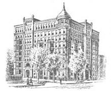 Womens Christian Association, Philadelphia